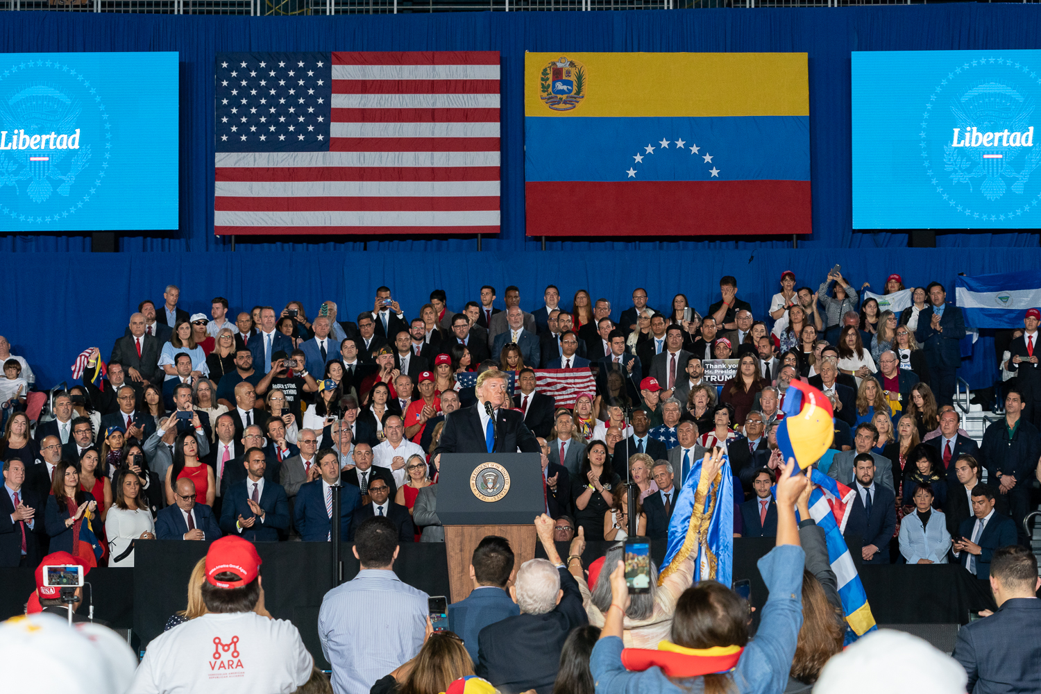 President Donald J. Trump delivers remarks to the Venezuelan American community at the Florida International University Ocean Bank Convocation Center Monday, Feb. 18, 2019 in Miami, Fla. (Official White House Photo by Andrea Hanks)